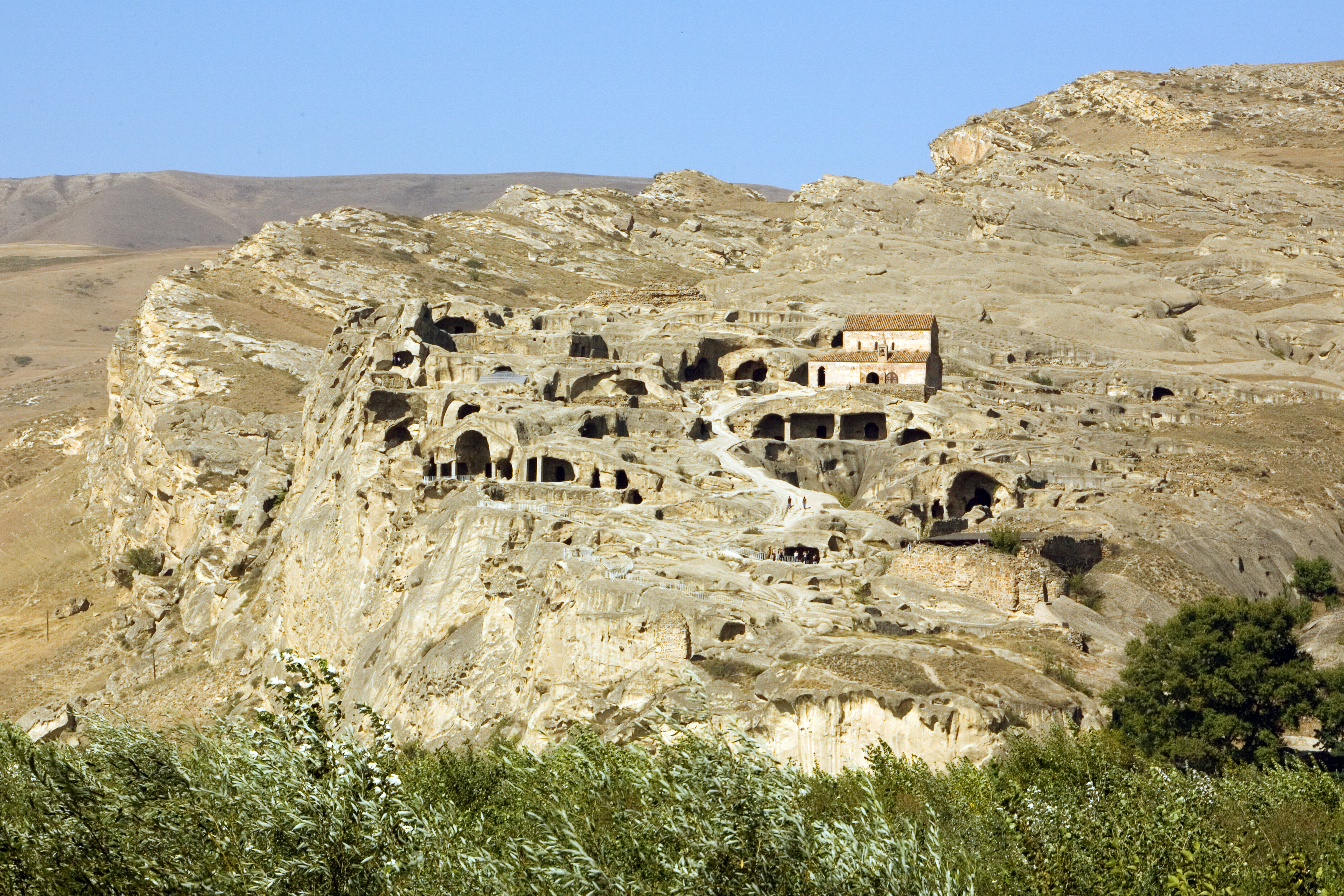 Uplistsikhe, General view from South